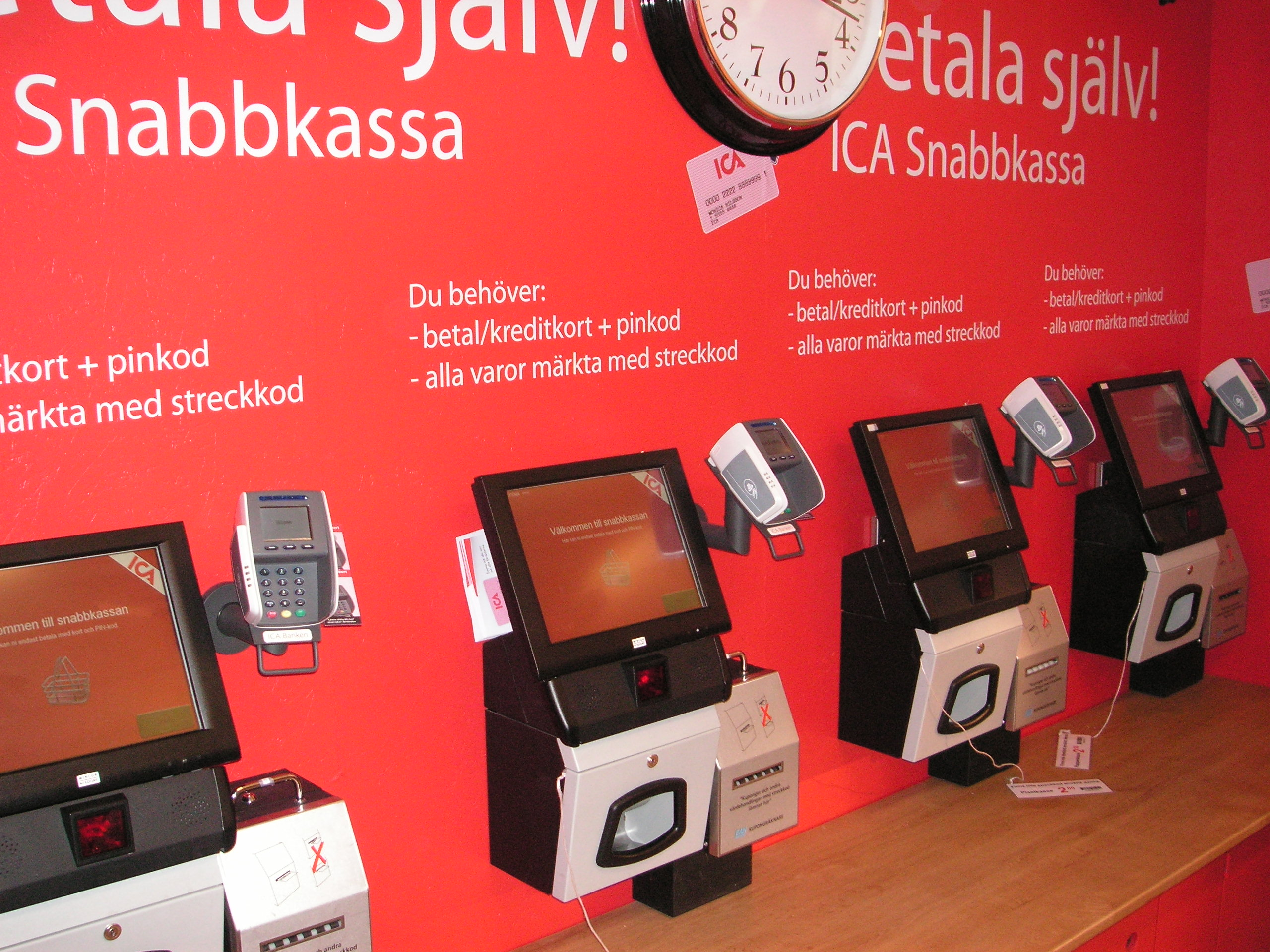 Self checkout station at an Ica Supermarket store.